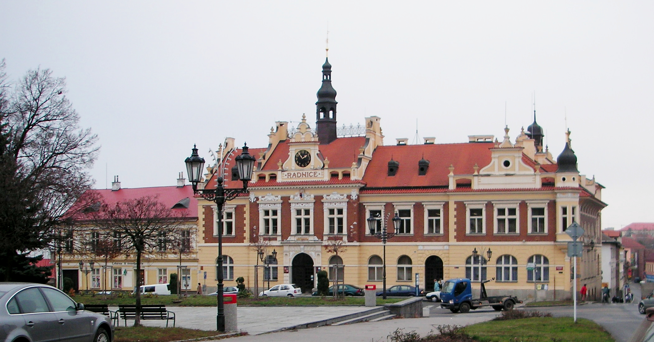 Town hall in Hořovice, Czech Republic. Česky: Radnice v Hořovicích.